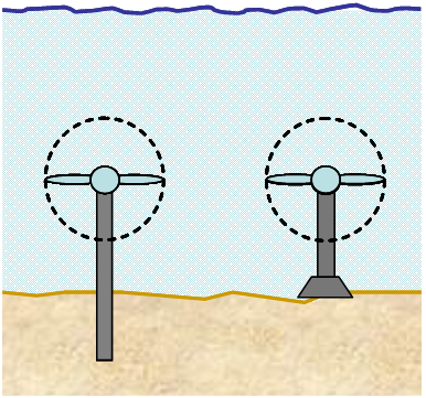 Graphic illustration of typical mounting method for tidal turbines